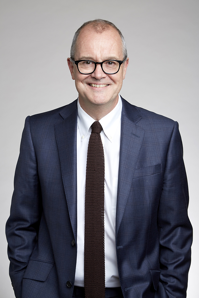 Patrick John Thompson Vallance (born 1960) FRS FMedSci FRCP is a British medical doctor, and the head of Research and development (R&D) at the British multinational pharmaceutical company GlaxoSmithKline (GSK). Attribution: The Royal Society